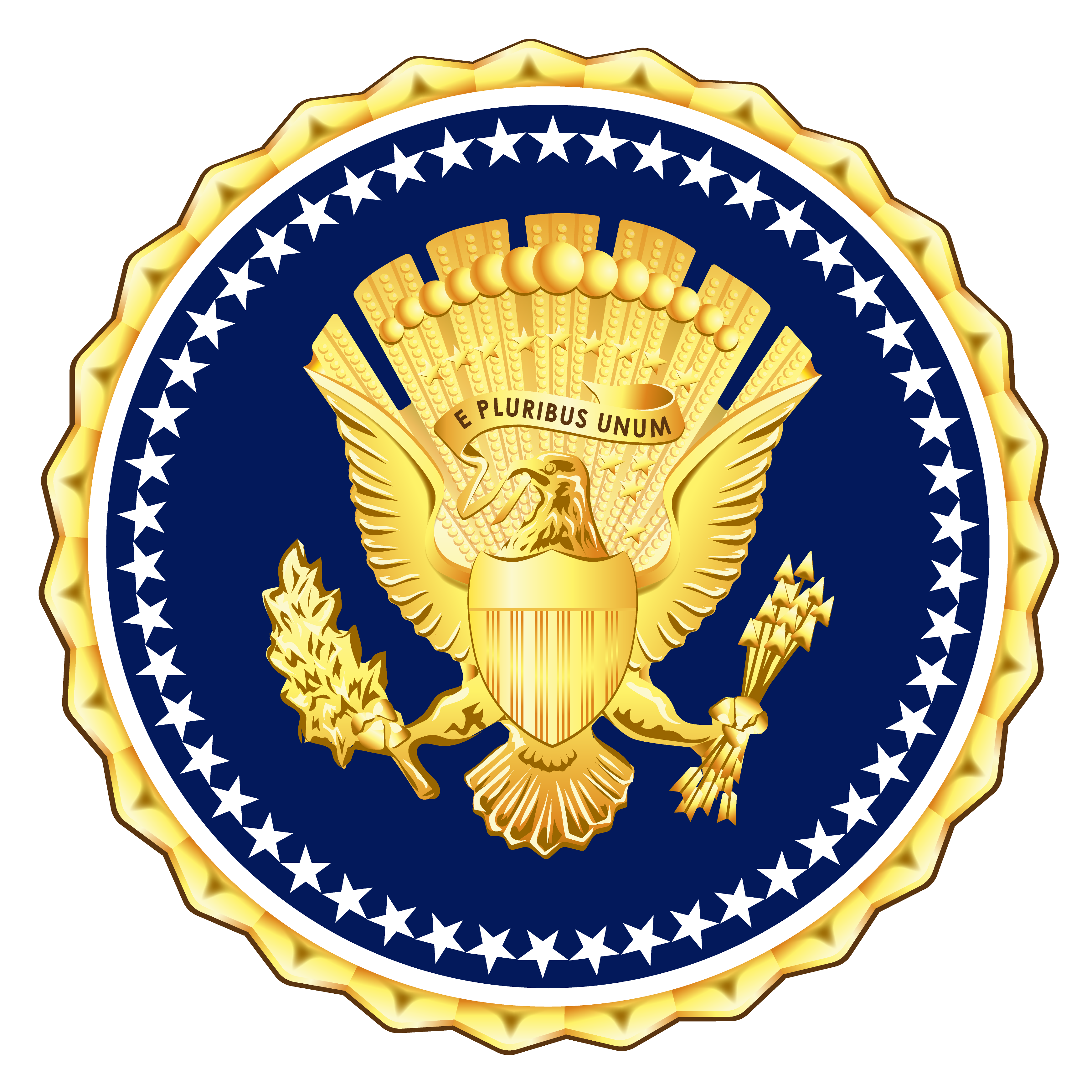 Presidential Service Badge